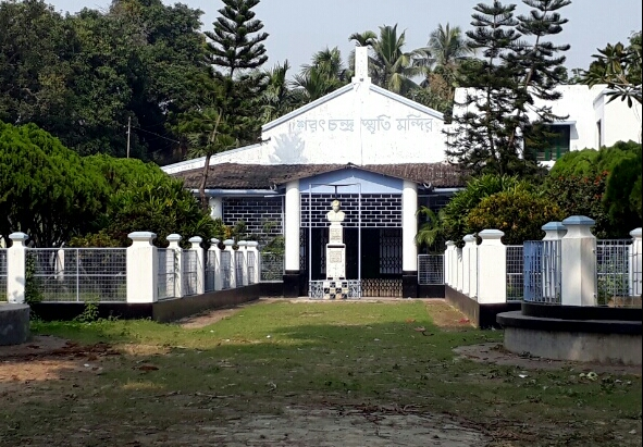 Birth place of Sharat Chandra, Debanandapur, Hooghly